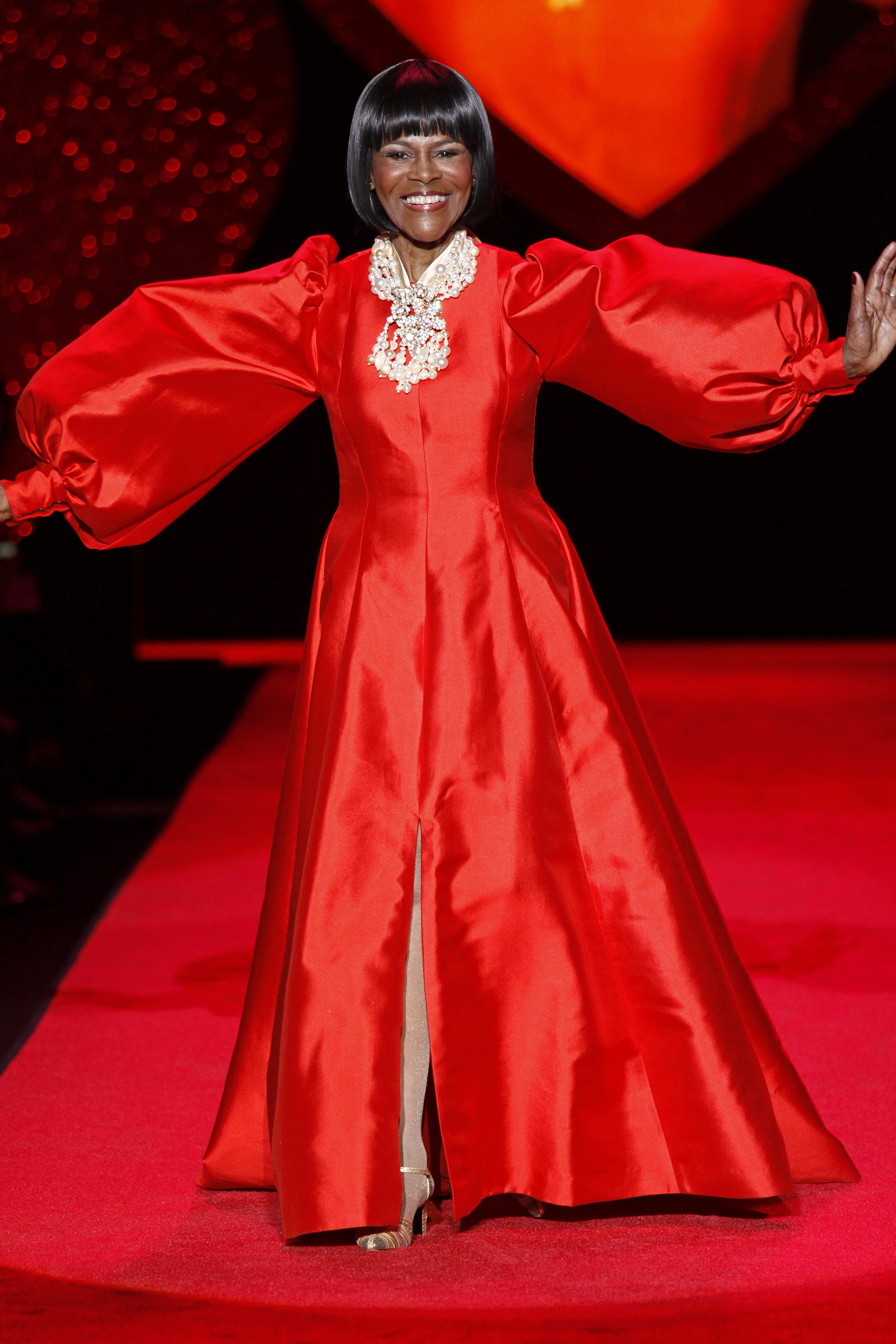 Backstage at The Heart Truth's Red Dress Collection Fashion Show during New York Fashion Week. February 13, 2009 at Bryant Park.